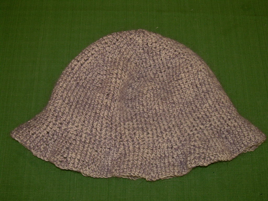 Hat made by crochet